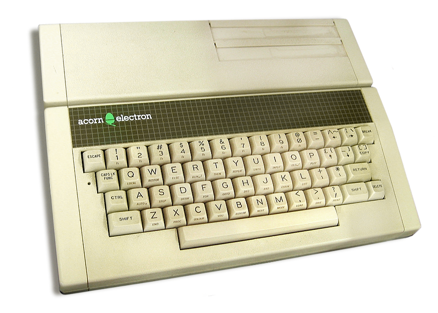 An Acorn Electron home computer.